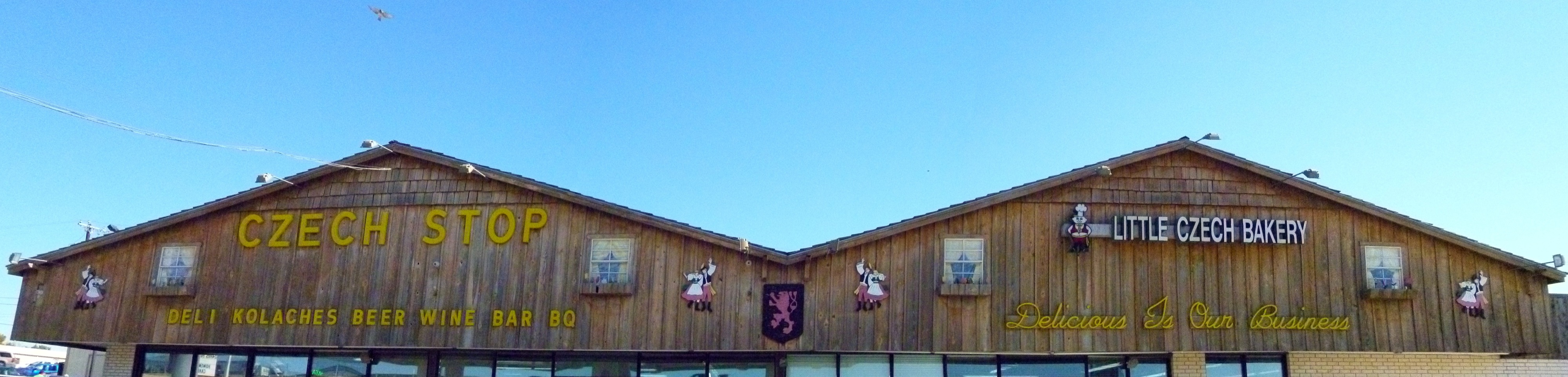 Czeh Stop the Kolache capitol of Texas --- Photo Taken 5/11/2010 in West, TX 76691